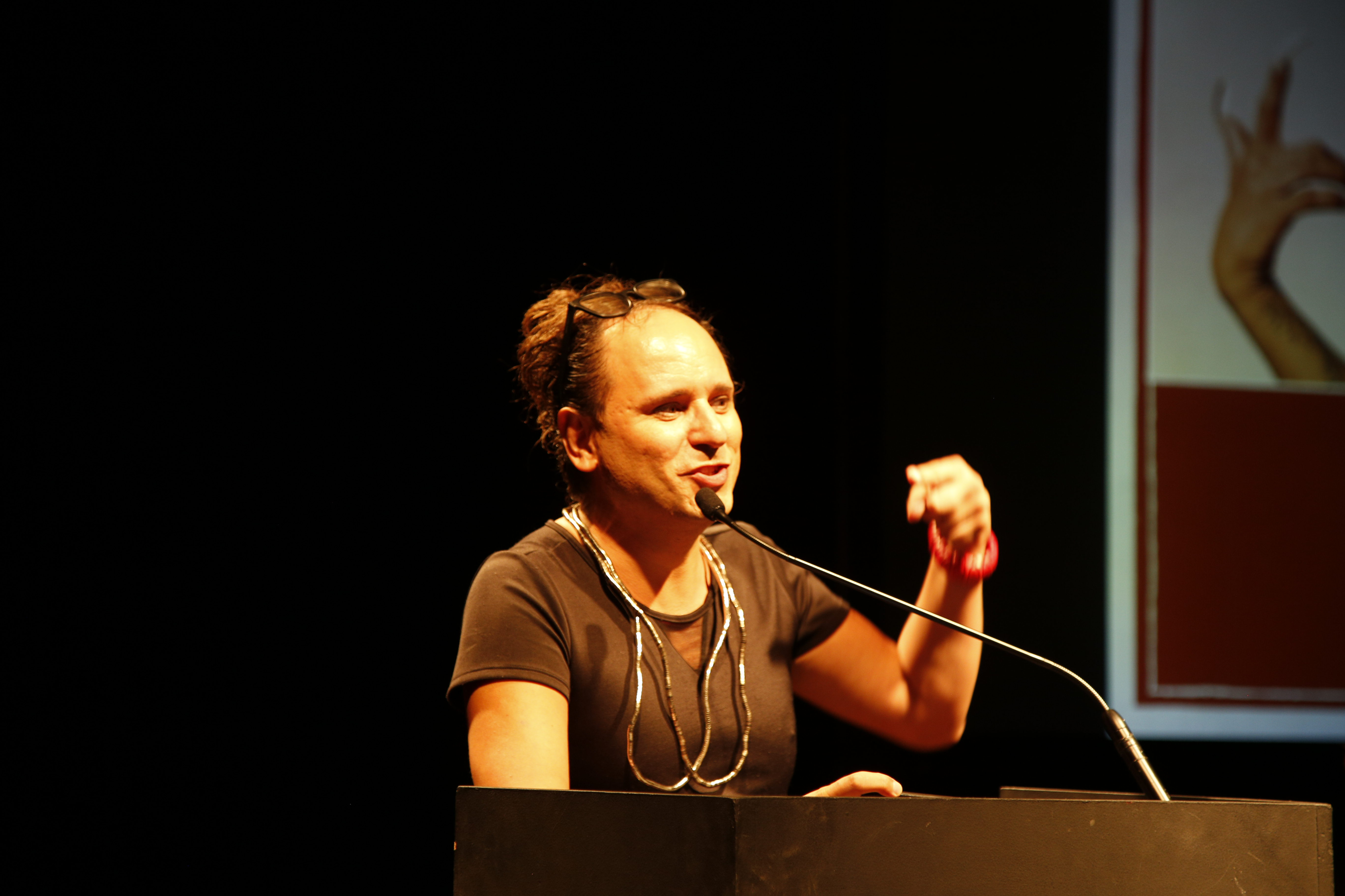 Dodi Leal no projeto MASP Professores - Mulheres nas Artes: corpo, voz e criação